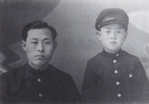 No Kum-sok